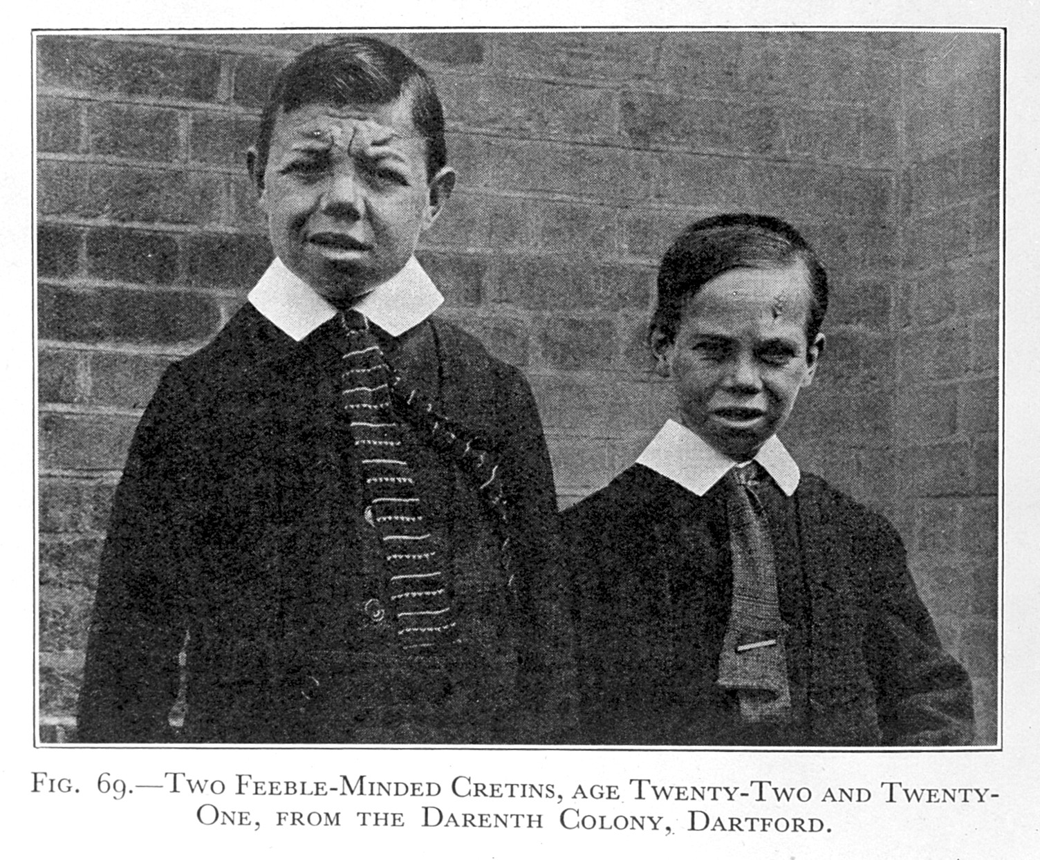 "Two cretins" General Collections Keywords: Reginald Ruggles Gates